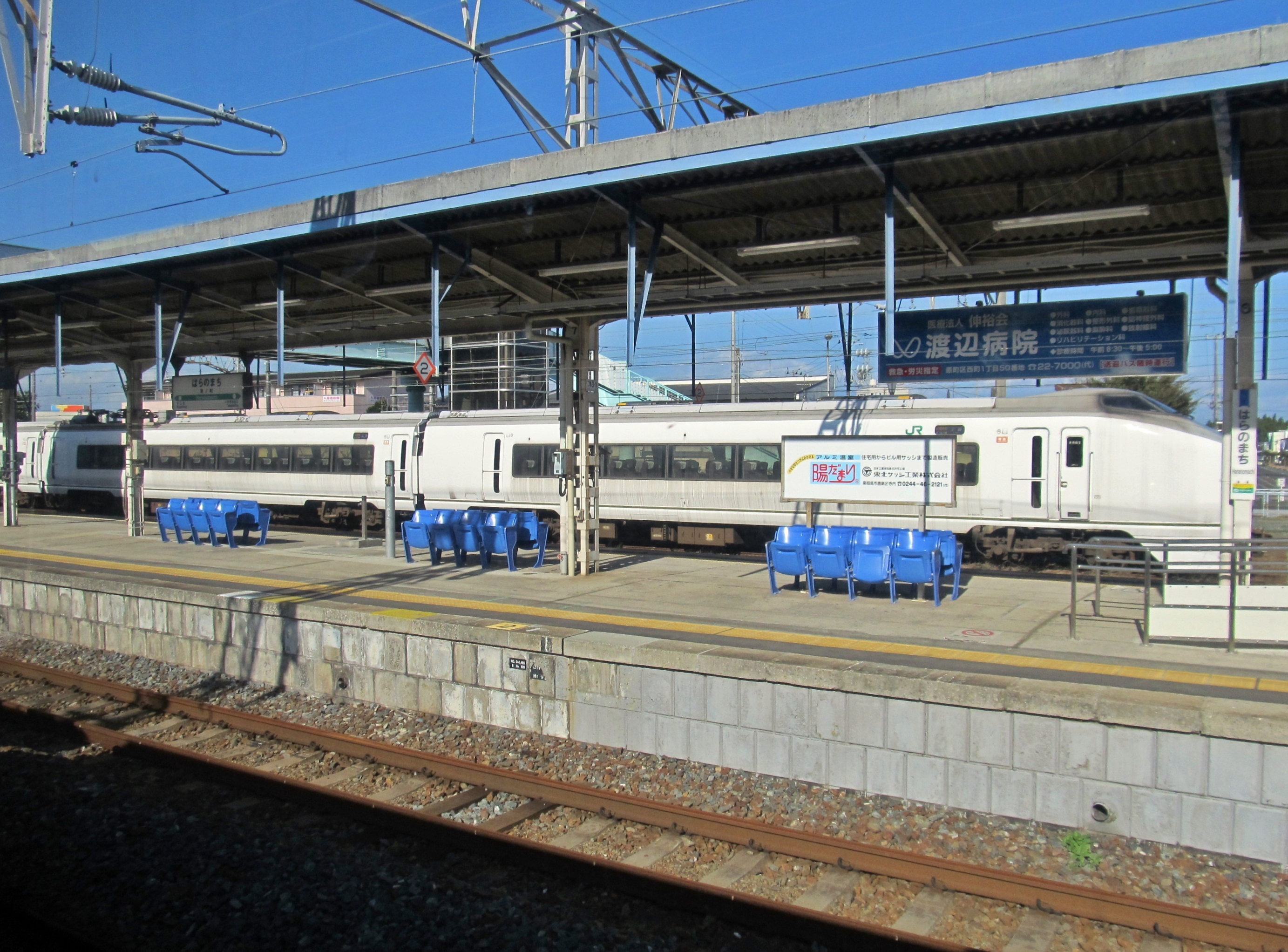 JR East 651 series EMU set K202 stored out of use at Haranomachi Station since the 2011 Tohoku Earthquake and Tsunami